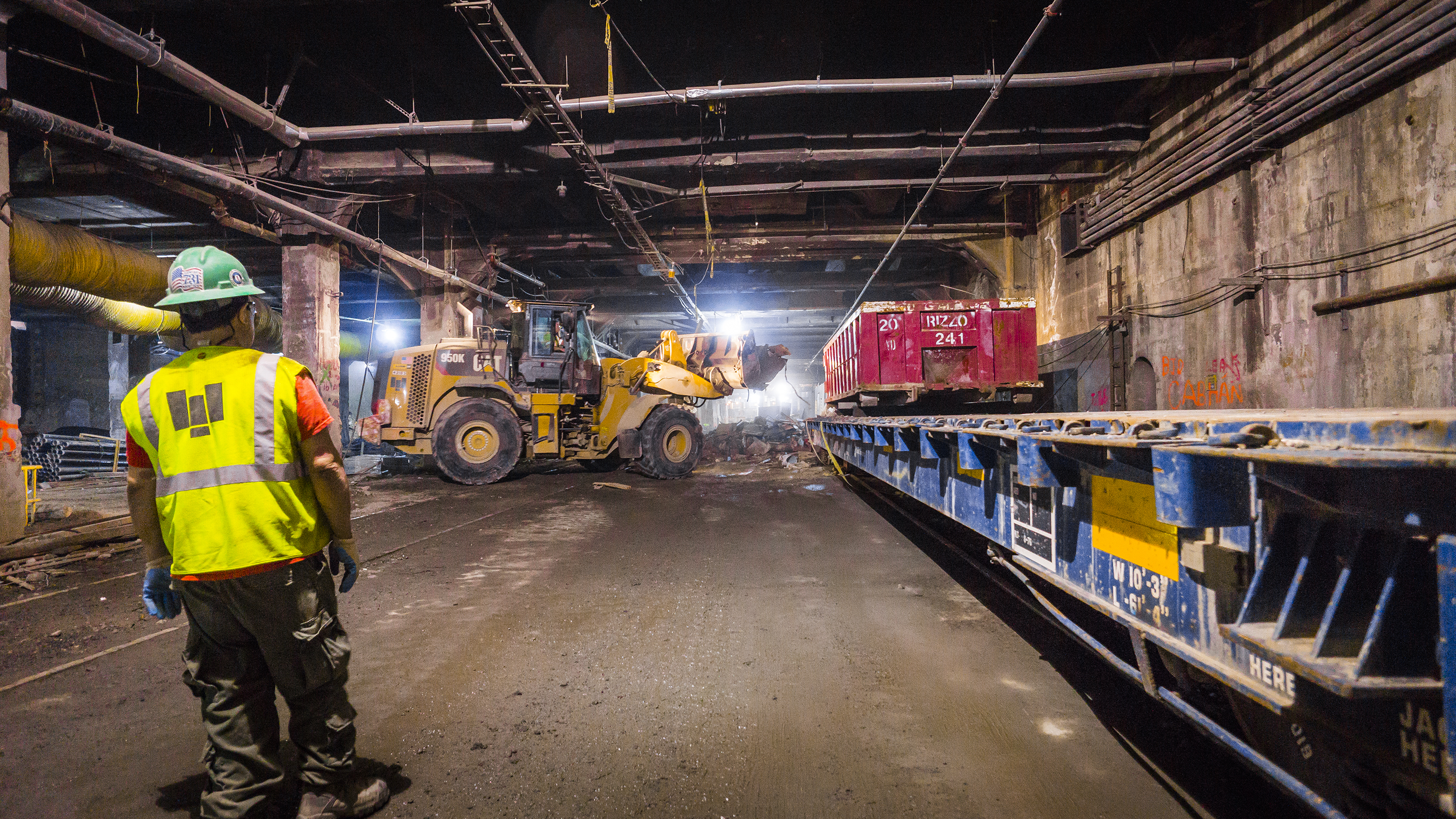 Progress on the Grand Central Terminal side of the East Side Access Project as of May 21, 2014. Photo: MTA Capital Construction / Rehema Trimiew